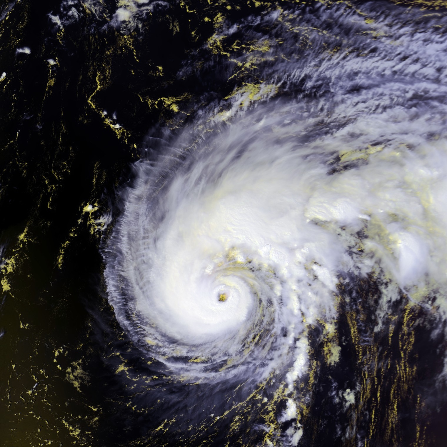 Hurricane Felix on September 13 at 1703 UTC. This image was produced from data from NOAA-16, provided by NOAA. Maximum sustained winds were near 110 mph at this time.